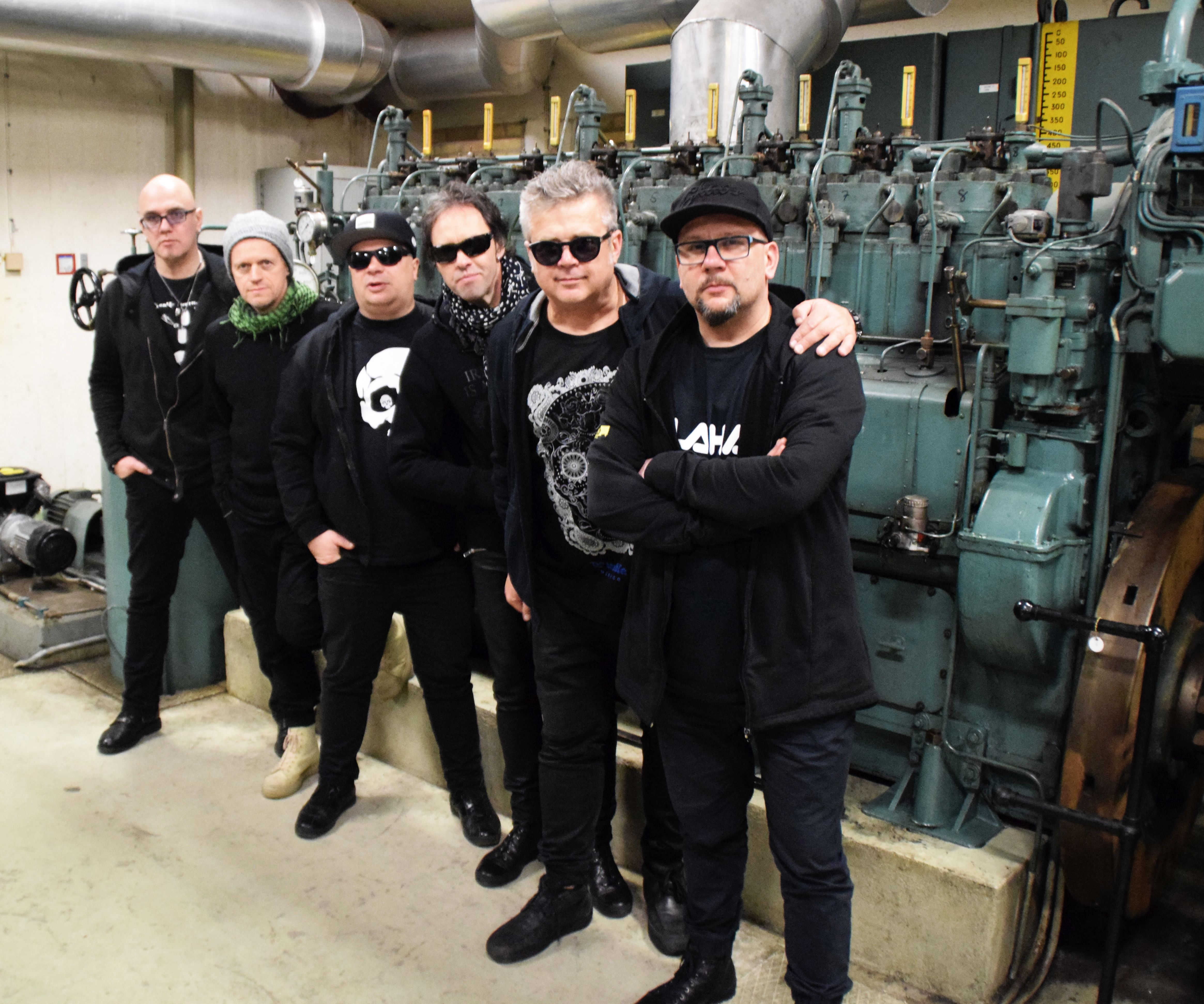 Big Cyc, 2018